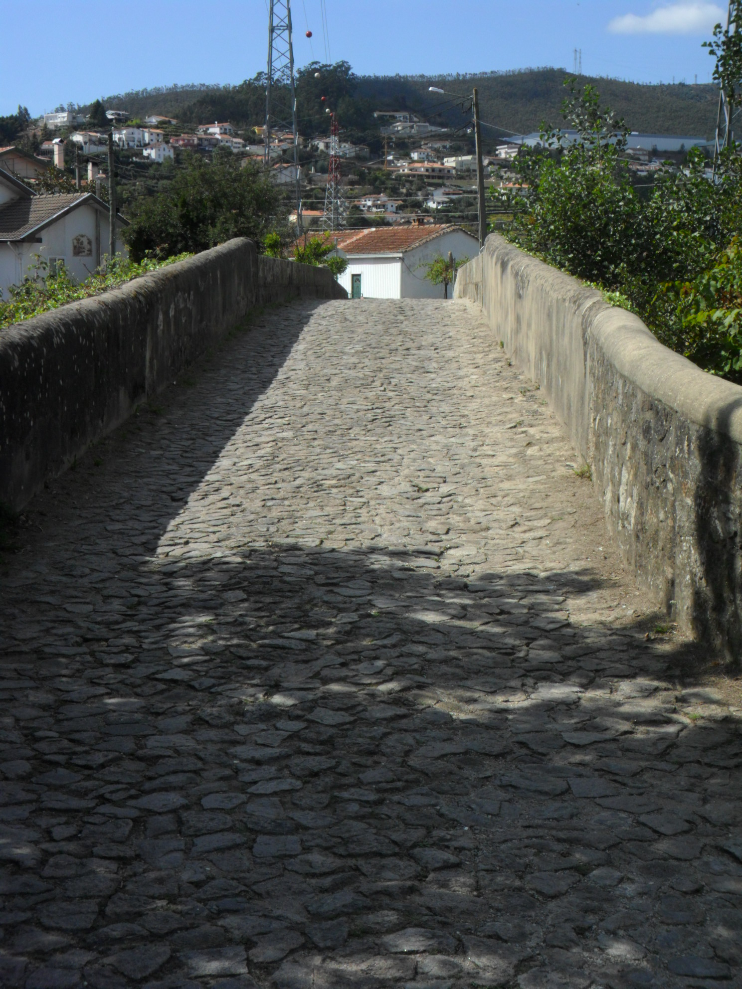 This file was uploaded for Wiki Loves Monuments in Portugal with the unique identifier 3929148.